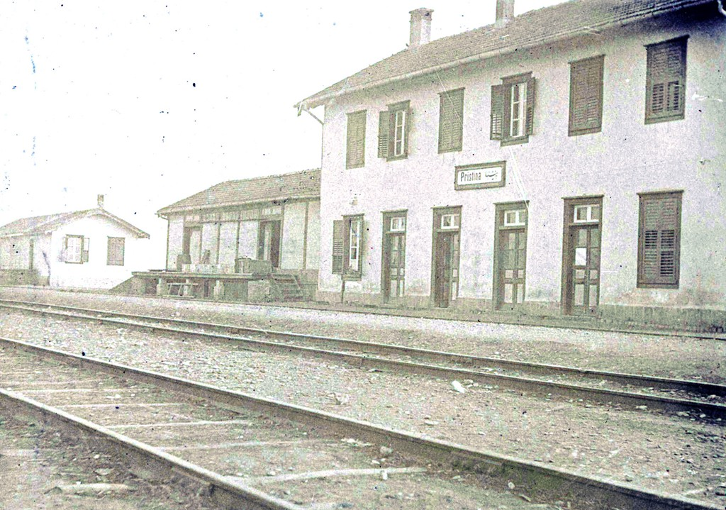 Pristina Railway Station